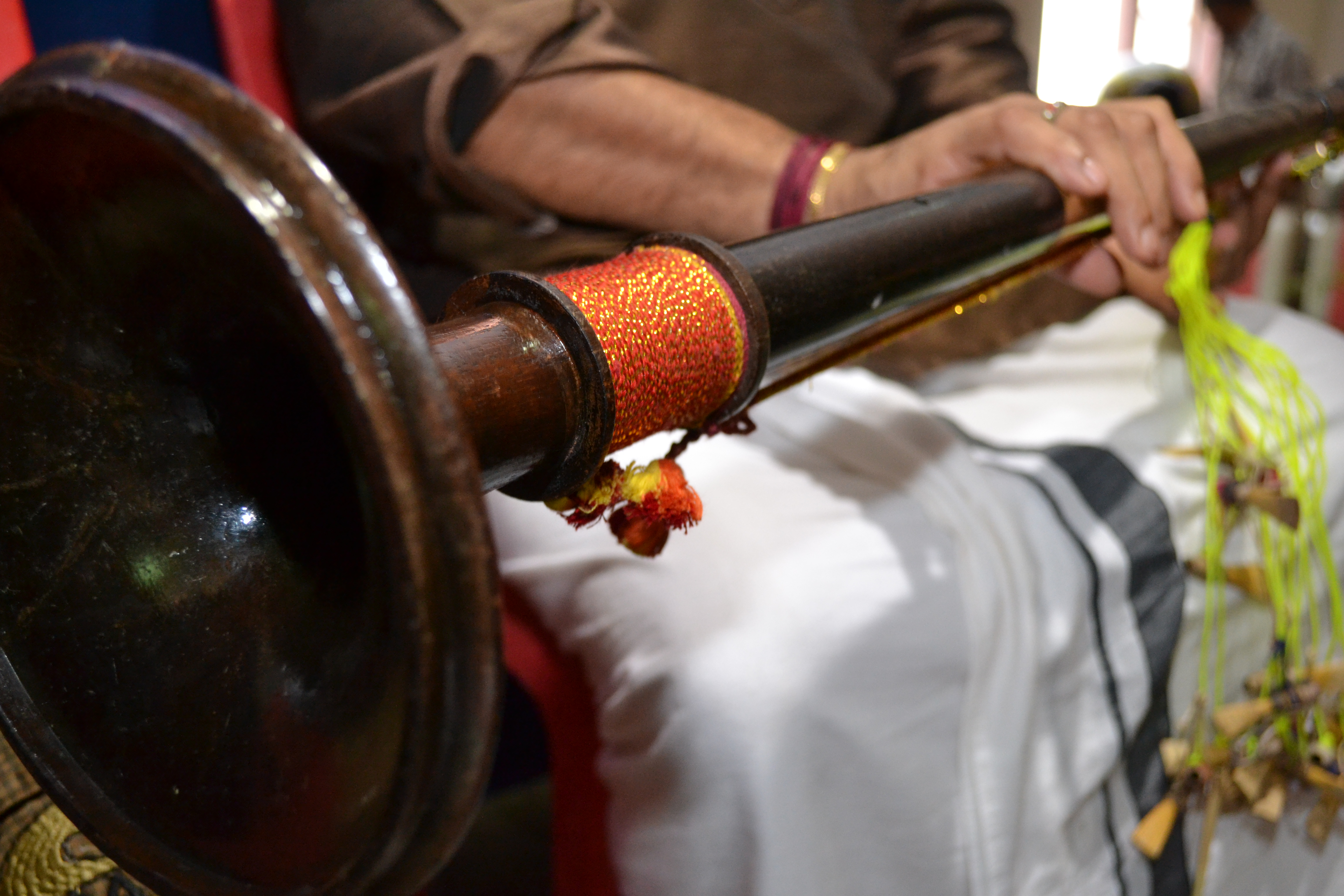 Popular classical musical instruments in South India